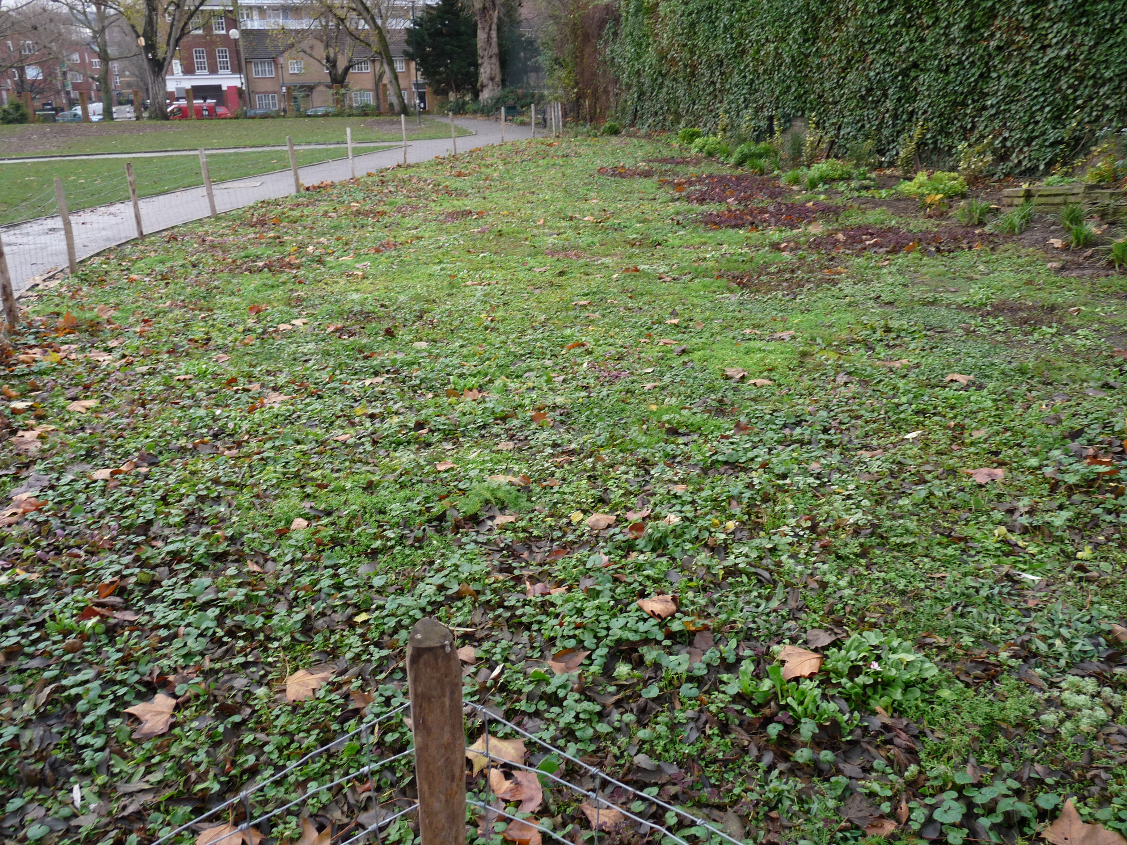 The tapestry lawn in Avondale Park London UK Winter